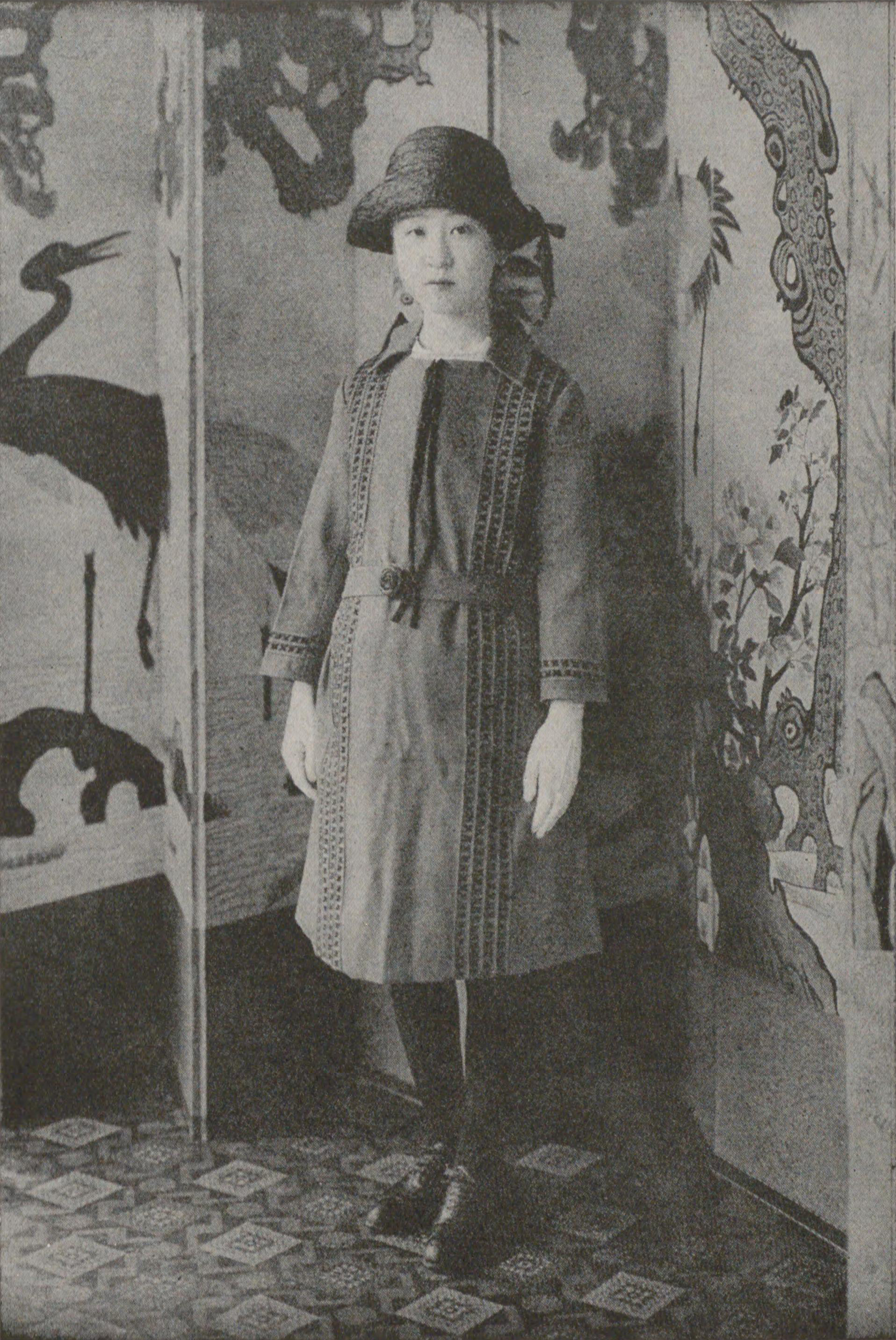 Princess Deokhye, 1925